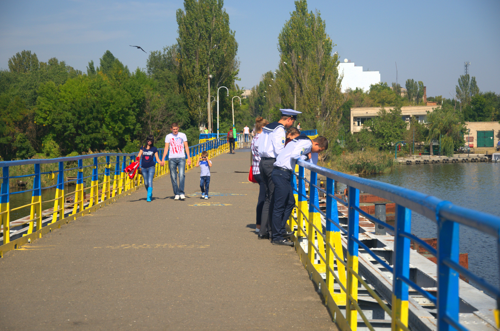 Пішохідний міст через р. Інгул, Миколаїв